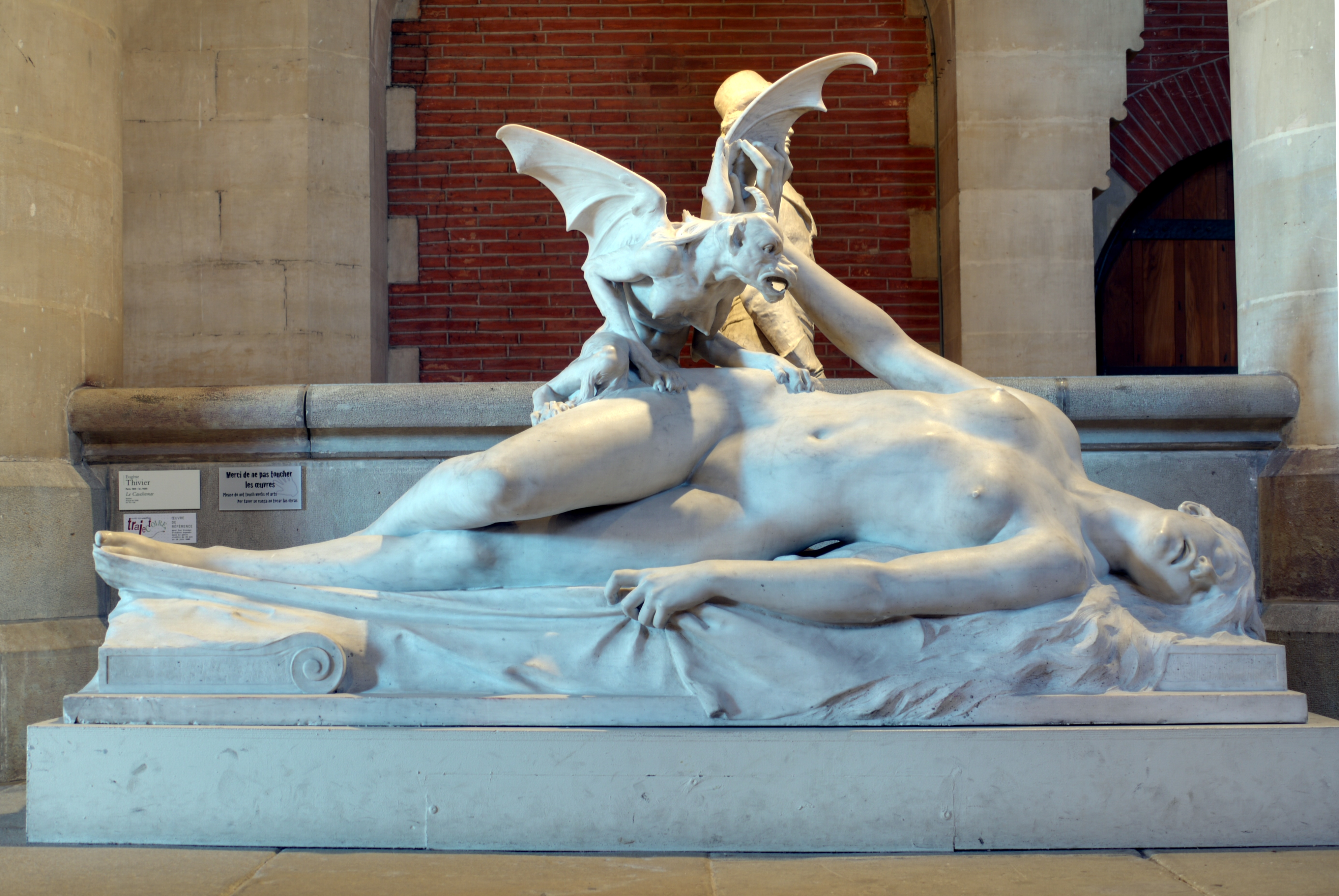 This photograph was taken at the Musée des Augustins of Toulouse